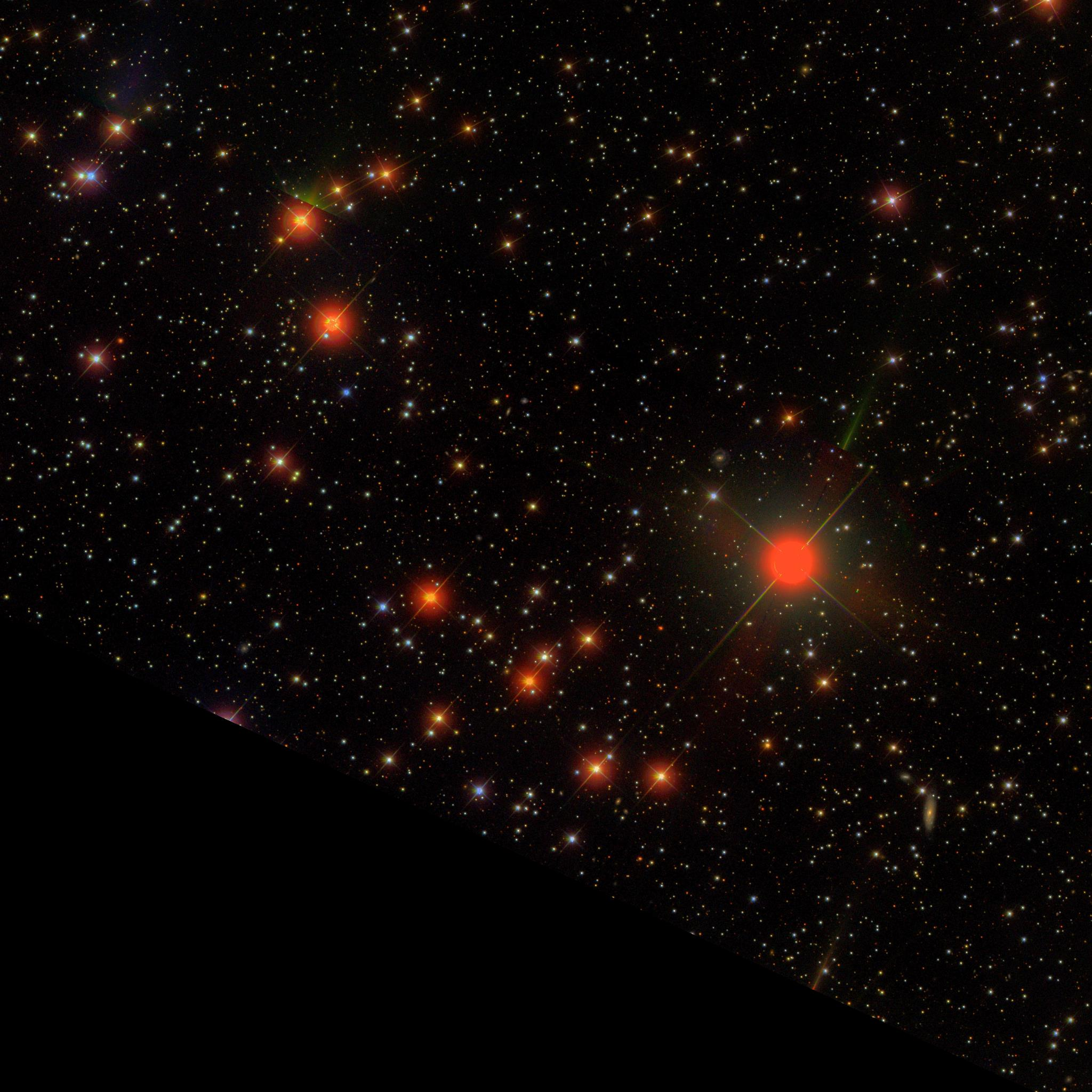 Angle of view: 27' × 27' (0.792" per pixel), north is up.